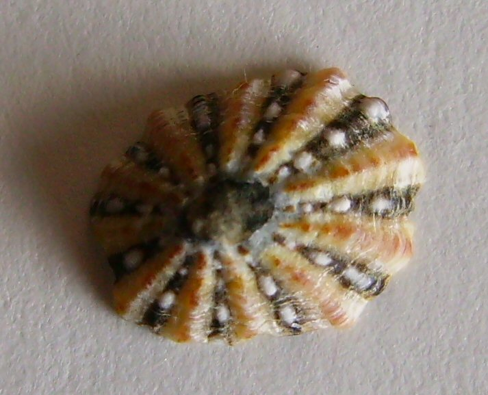 Cellana ornata from Coromandel, New Zealand. This work has been released into the public domain by its author, Graham Bould. This applies worldwide.In some countries this may not be legally possible; if so:Graham Bould grants anyone the right to use this work for any purpose, without any conditions, unless such conditions are required by law.